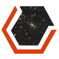 Dark Energy Survey logo